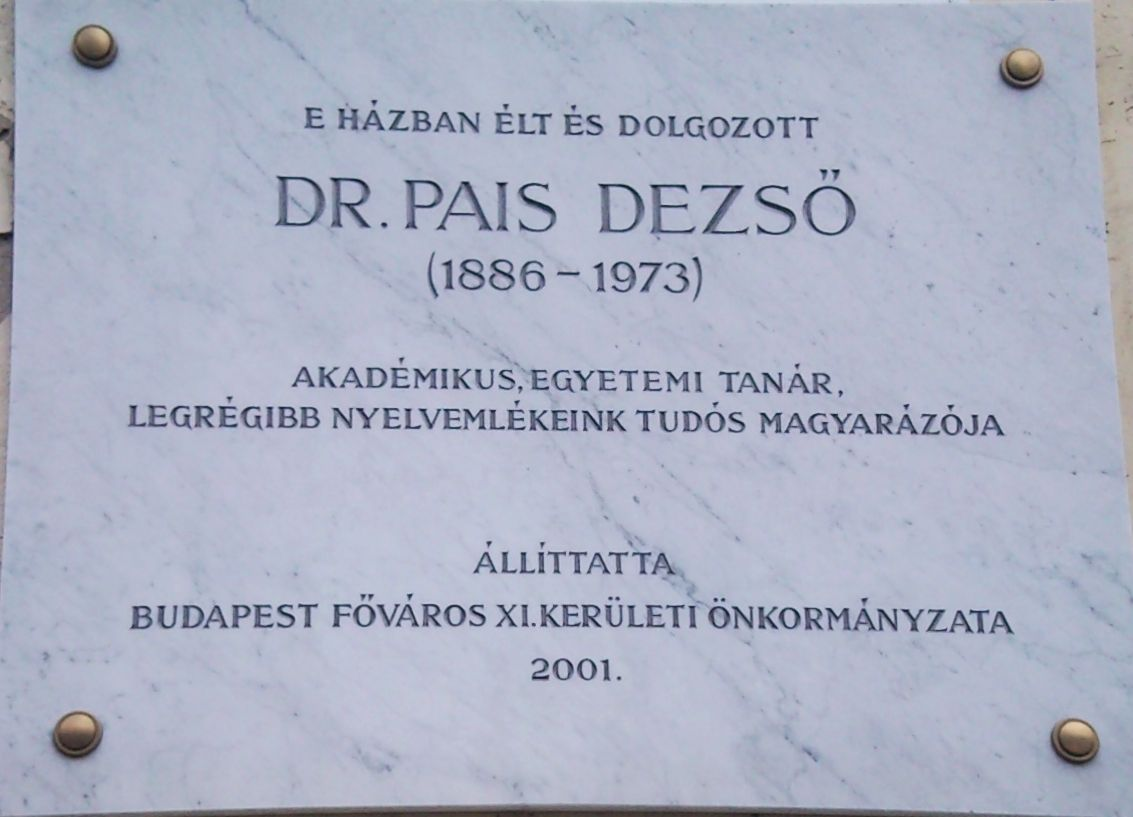 Dezső Pais commemorative plaque in Budapest District XI, Kosztolányi Dezső Square No 12.